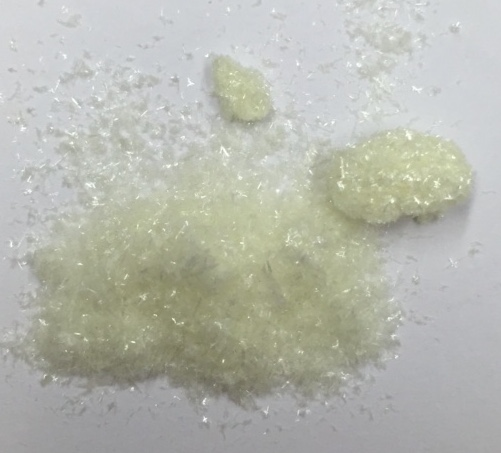 Fluoranthene sample